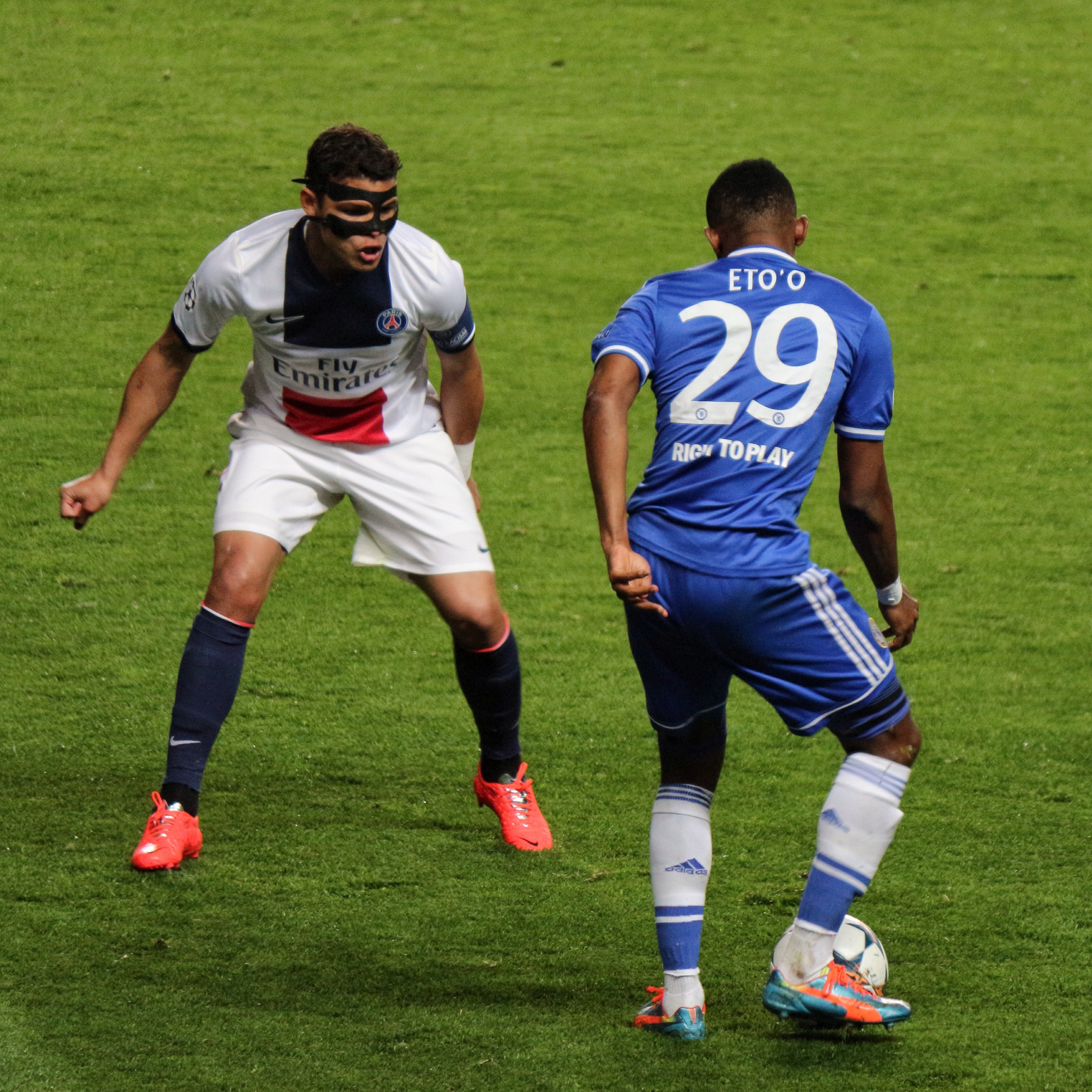 Chelsea 2 PSG 0